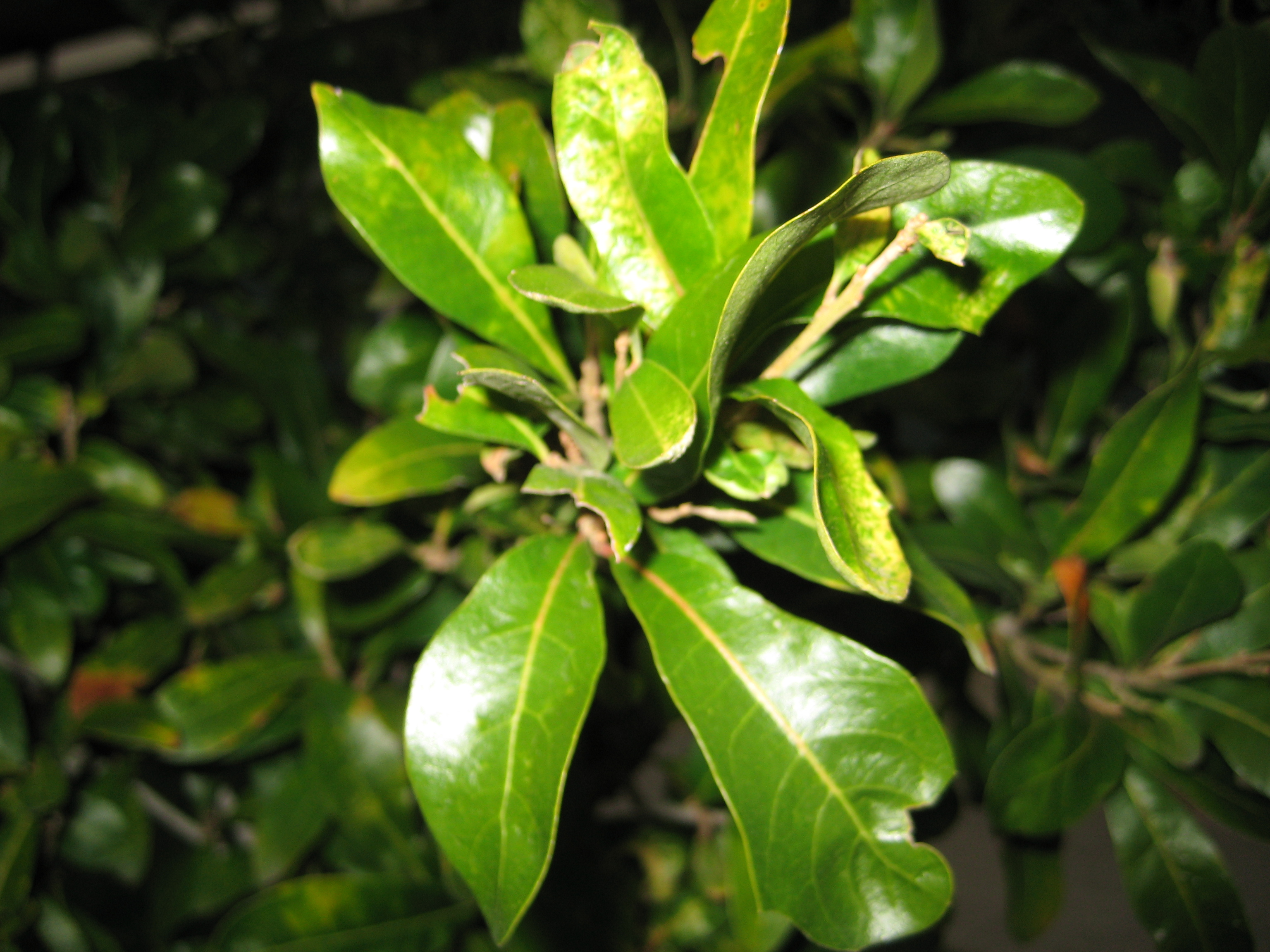 Quercus virginiana (Southern Live Oak)